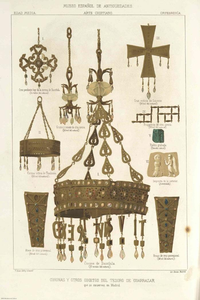 Author: Francisco Aznar García (Also, chromolithographer) 44.70 cm x 31.50 cm Chromolithographed plate from 1874, by Francisco Aznar García. The plate was published in the periodical Museo Español de Antigüedades ('Spanish Museum of Antiquities') (volume III, pp.113-132). It is part of the article by Juan de Dios de la Rada y Delgado "Guarrazar Crowns that are kept in the Royal Armory of Madrid", published in volume III of the Spanish Museum of Antiquities (pp.113-132). The Spanish Museum of Antiquities was a periodical of a monumental nature, in the style of the great European publications of the 19th century, directed by Juan de Dios de la Rada between 1872 and 1880. Representation of crowns and various pieces of the Treasure of Guarrazar, stating the object and its scale, made with colored inks, among which the golden ones stand out. With number I the Suintila crown is drawn and the cross that was hung from it; with II, the votive crown of Theodosius; with III the votive cross of Lucecio. The IV corresponds to a fragment of the diadem of a crown; the V is an engraved emerald, the imprint of which is represented increased by number VI to perceive the represented motif. Without number, in the lower part of the plate and on both sides of the hanging letters of the Suintila crown, two arms of the processional cross of Guarrazar are represented. Of all the pieces that are represented in this plate, all of Guarrazar's Treasury, only the arms of the processional cross are in the National Archaeological Museum (Madrid), and corresponds to the inventory number 52561. The other pieces are those of the Royal Palace (Madrid), although Suintila's crown unfortunately disappeared in 1921. Chromolithographed sheet on high grammage bleached and laid paper, bound in cardboard and sewn. Centered stamping, in a box 36 cm high and 24.4 wide, leaving margins on all four sides, housing the data regarding its content on the top and bottom.